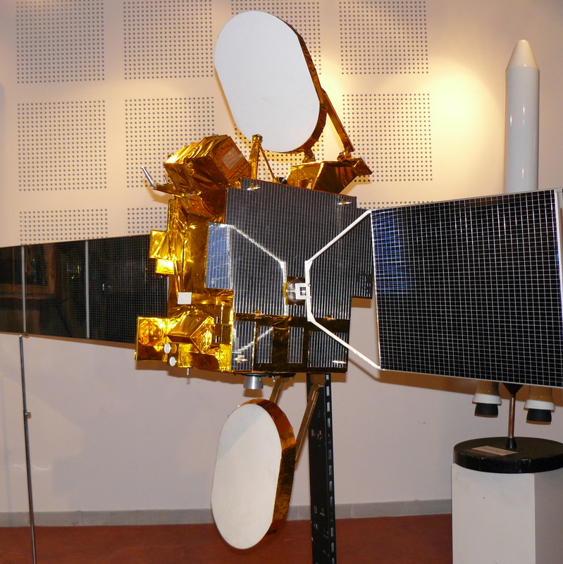 1/4th scale mockup of Hotbird 1, a Spacebus 2000